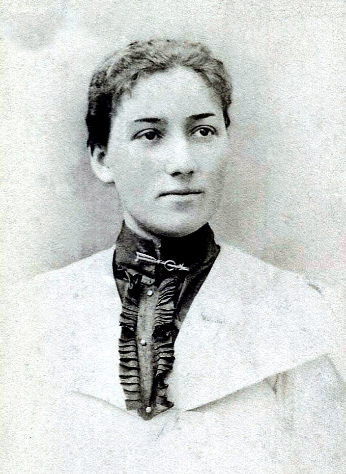 'Lady in Mistelbach', possible relative of Alfons Matter or acqaintance believed to be Katharina von Flondor (1843-1920) wife of Baron Alexander Wassilko von Serecki (1827-1893) Governor of the Duchy of Bucovina - photograph taken at studio of Paula Wolfram, an der Straatsbahn, in Mistelbach.The Scotch Mist Gallery contains photographs of historic buildings, monuments, memorials and people of Poland.